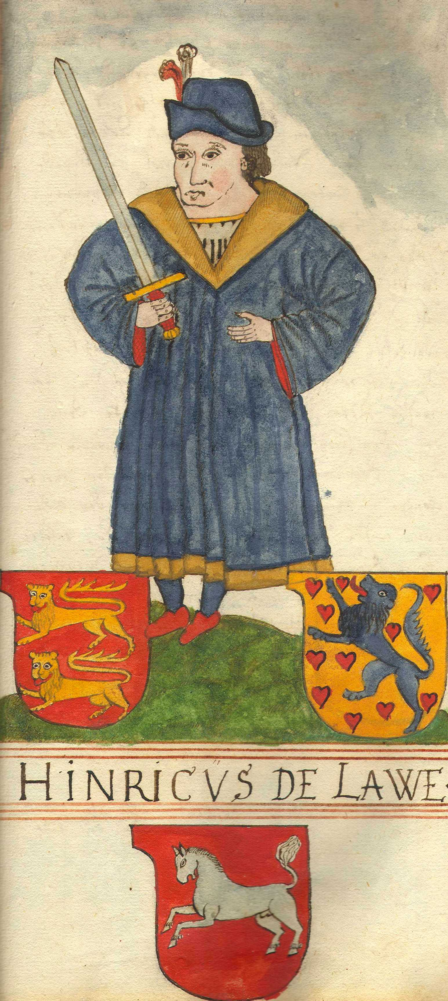 Braunschweig, Hermann Bote, Schichtbuch from 1514: illustration depicting Duke Henry the Lion.